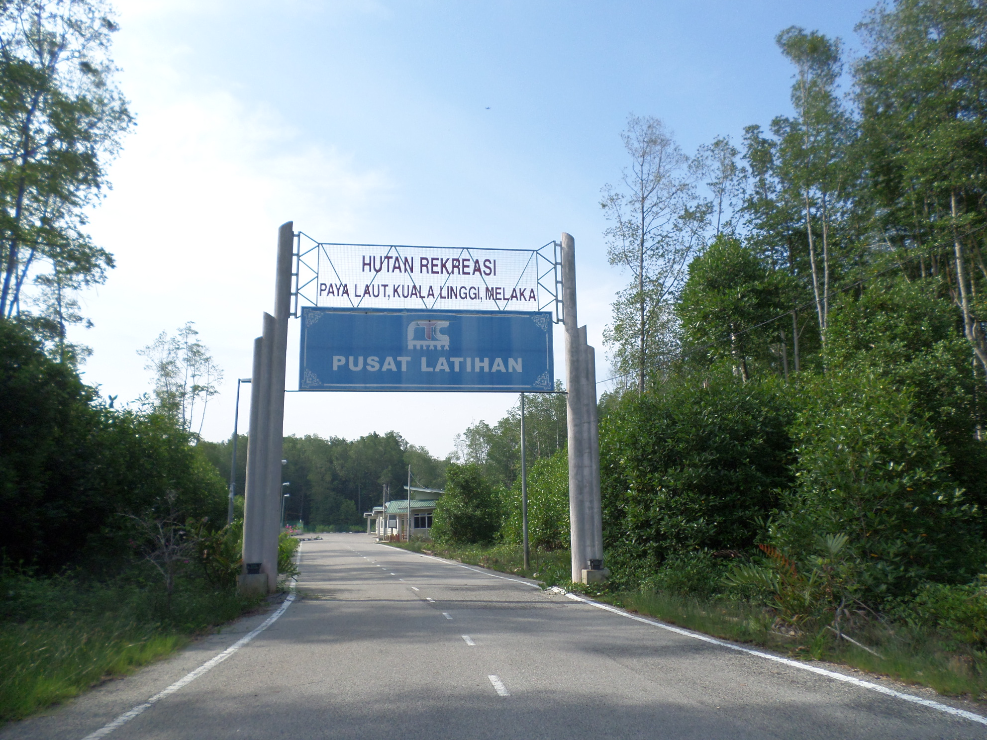 Paya Laut Linggi Recreational Forest, Kuala Sungai Baru, Alor Gajah, Malacca, MalaysiaBahasa Melayu: Hutan Rekreasi Paya Laut Kuala Linggi, Kuala Sungai Baru, Alor Gajah, Melaka, Malaysia